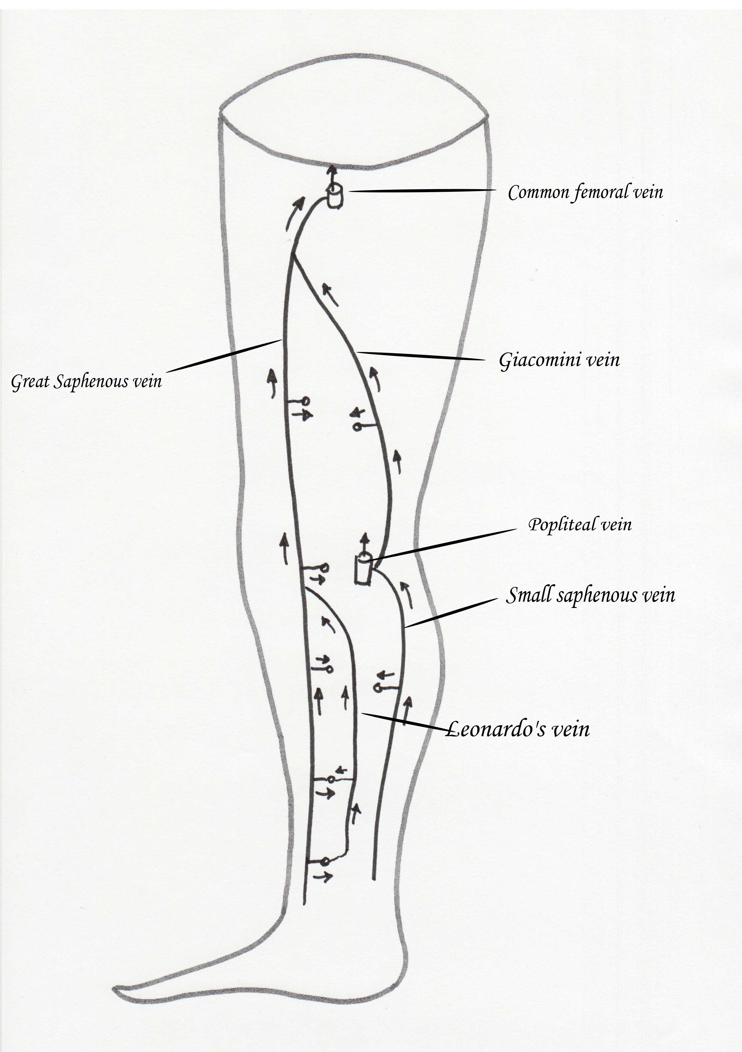 Giacomini vein & Leonardo's vein